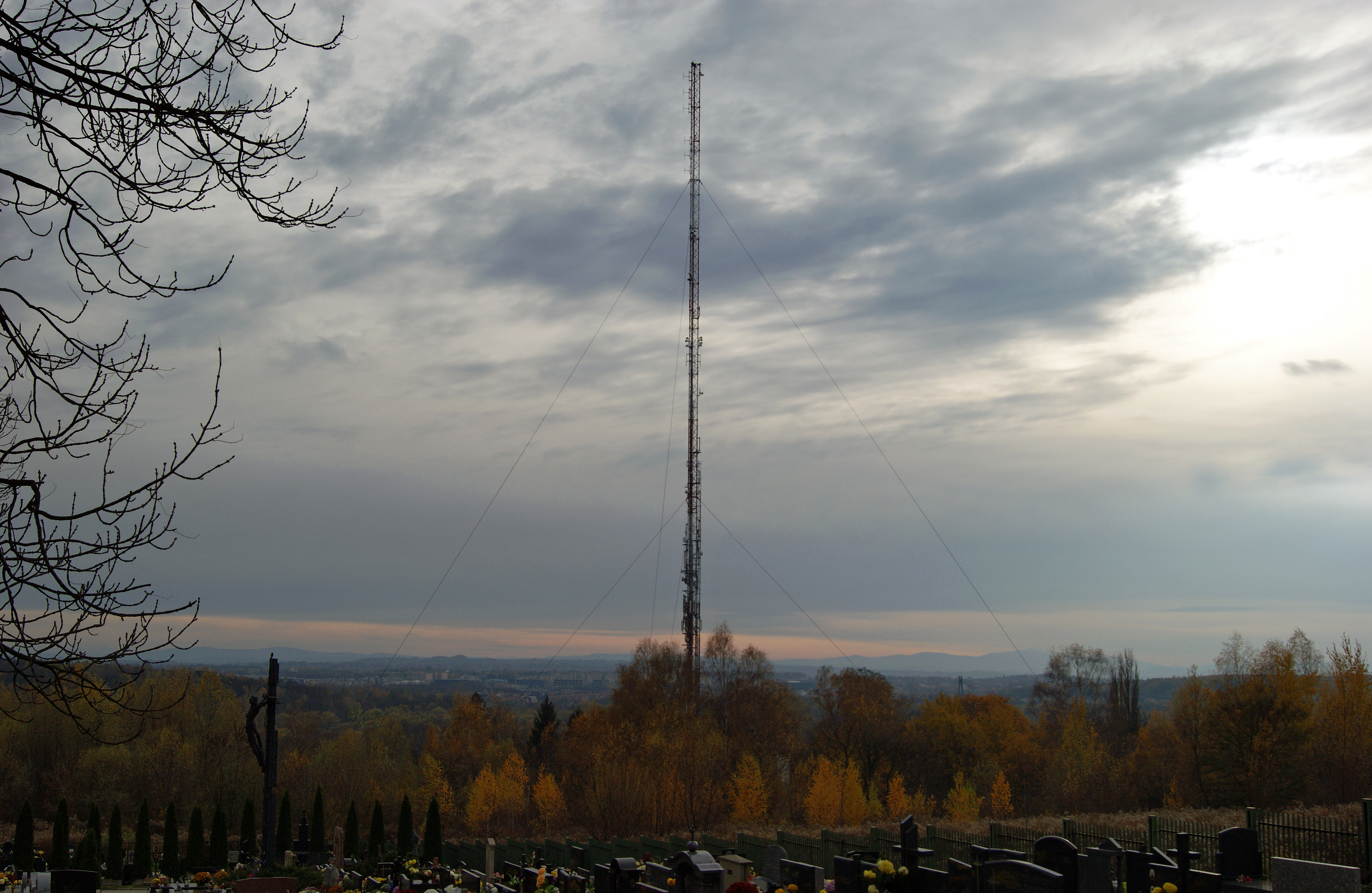 Radio mast RON Malczewskiego, 45 Malczewskiego street, Krakow, Poland